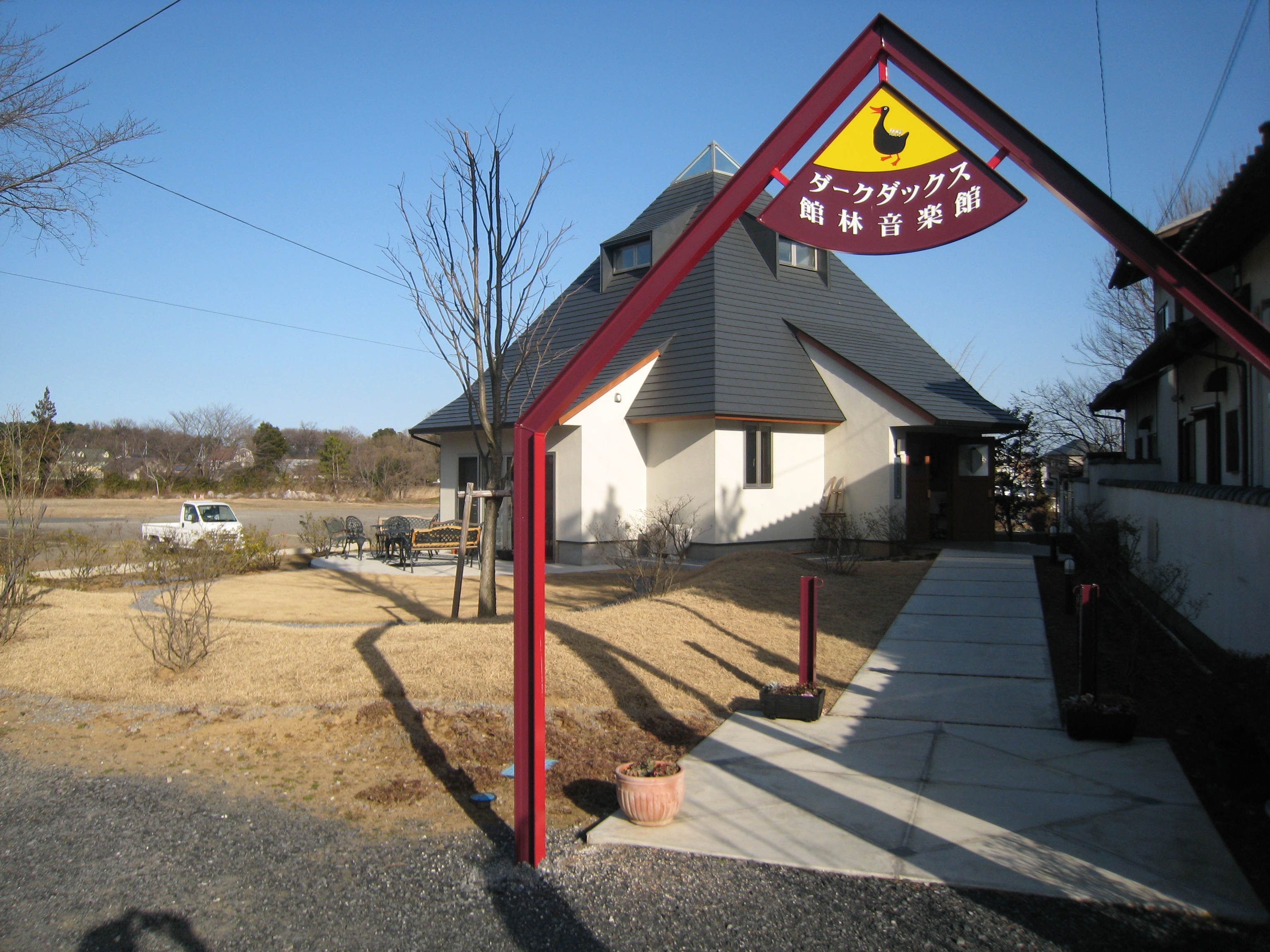 DARK DUCKS Tatebayashi Museum in Tatebayashi, Gunma Prefecture,Japan.